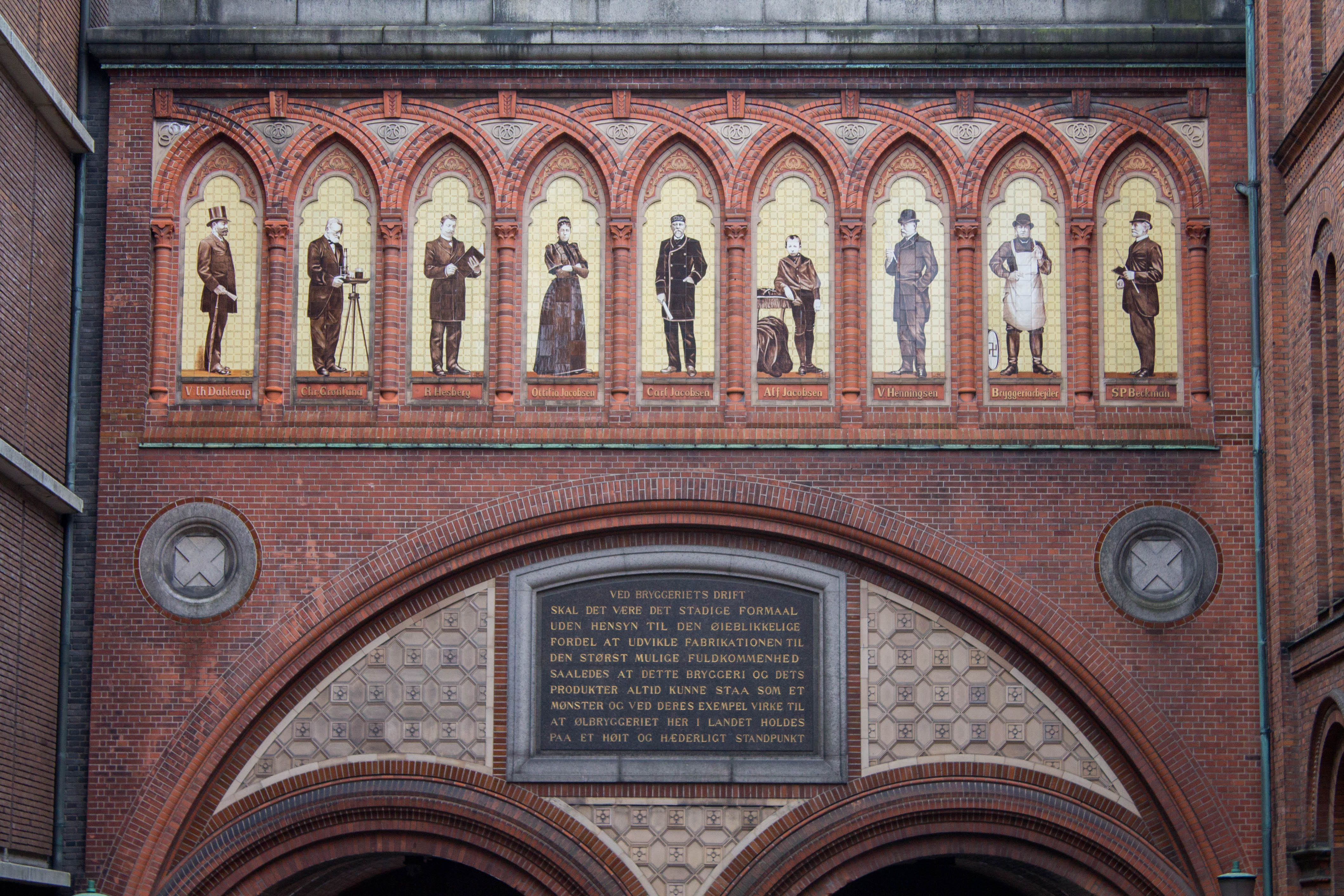 Decorations on Dipylon at Carlsberg, Copenhagen, Denmark